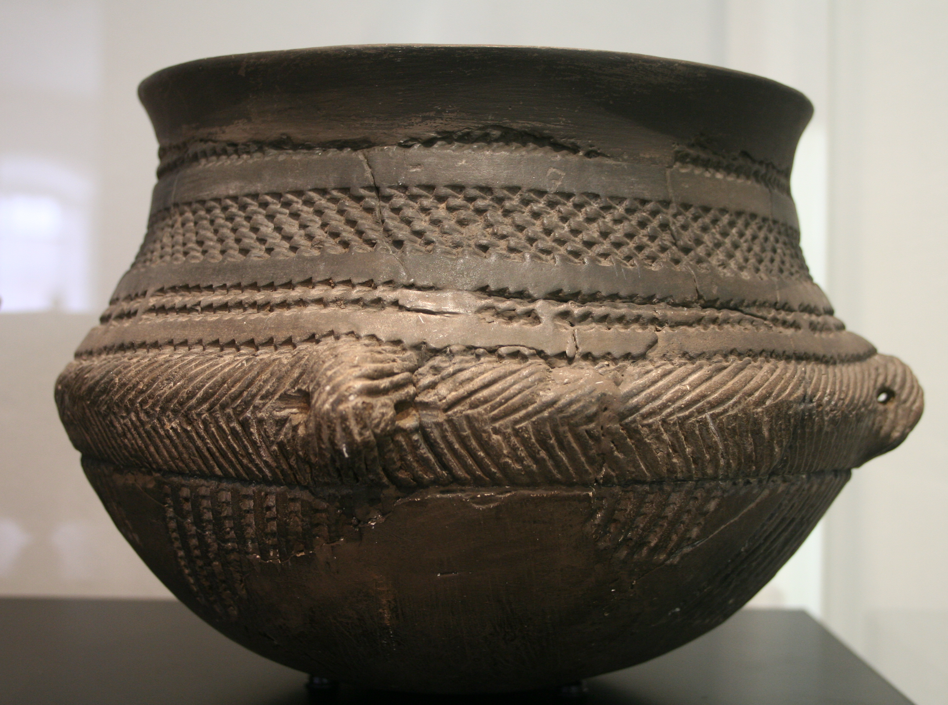 Kink-walled vessel of the Großgartach culture from Stuttgart-Mühlhausen, State museum Württemberg, Stuttgart